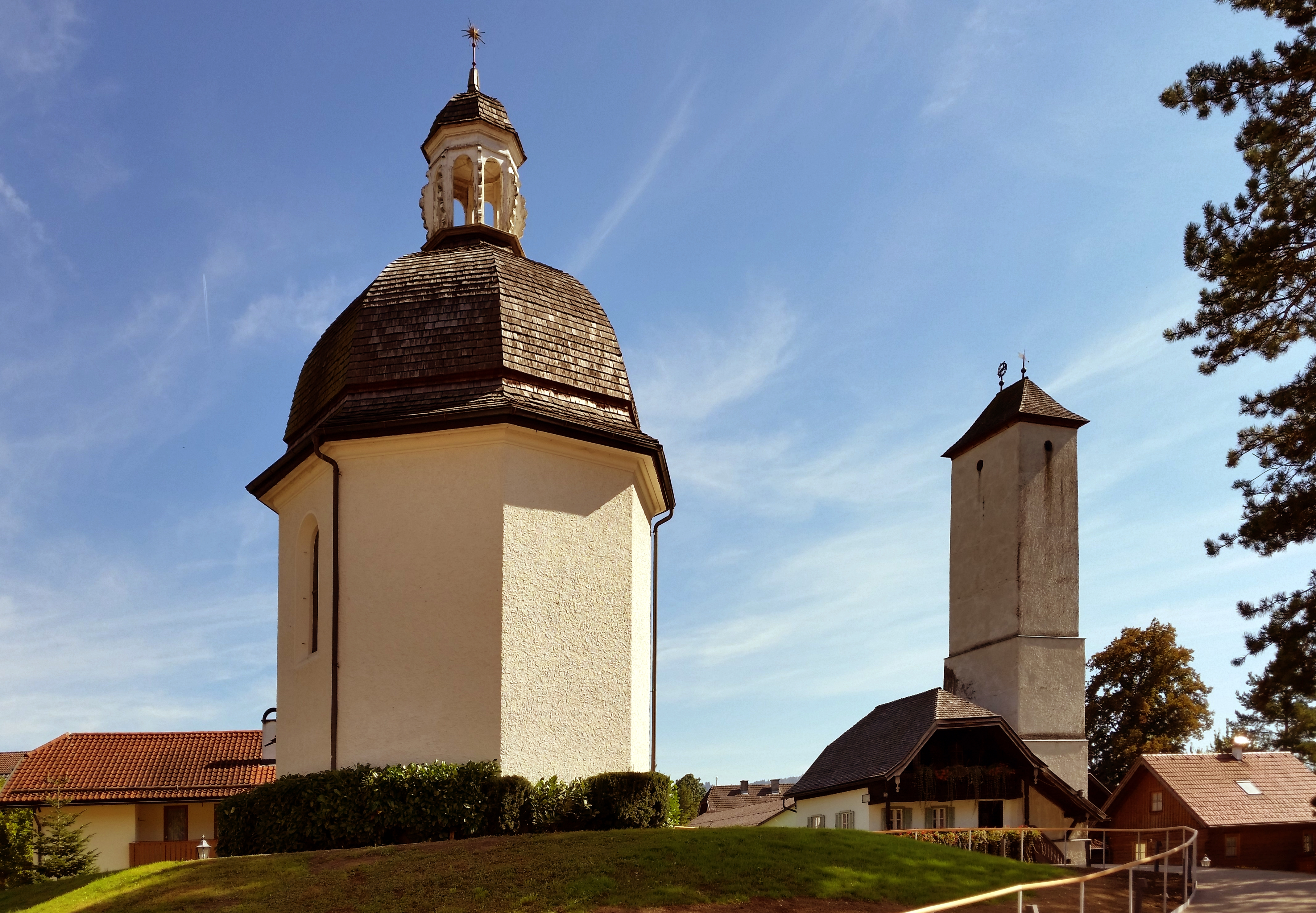 Oberndorf bei Salzburg - Stille Nacht Kapelle Dieses Bild wurde anlässlich des österreichischen Tags des Denkmals 2016 in Salzburg eingereicht.